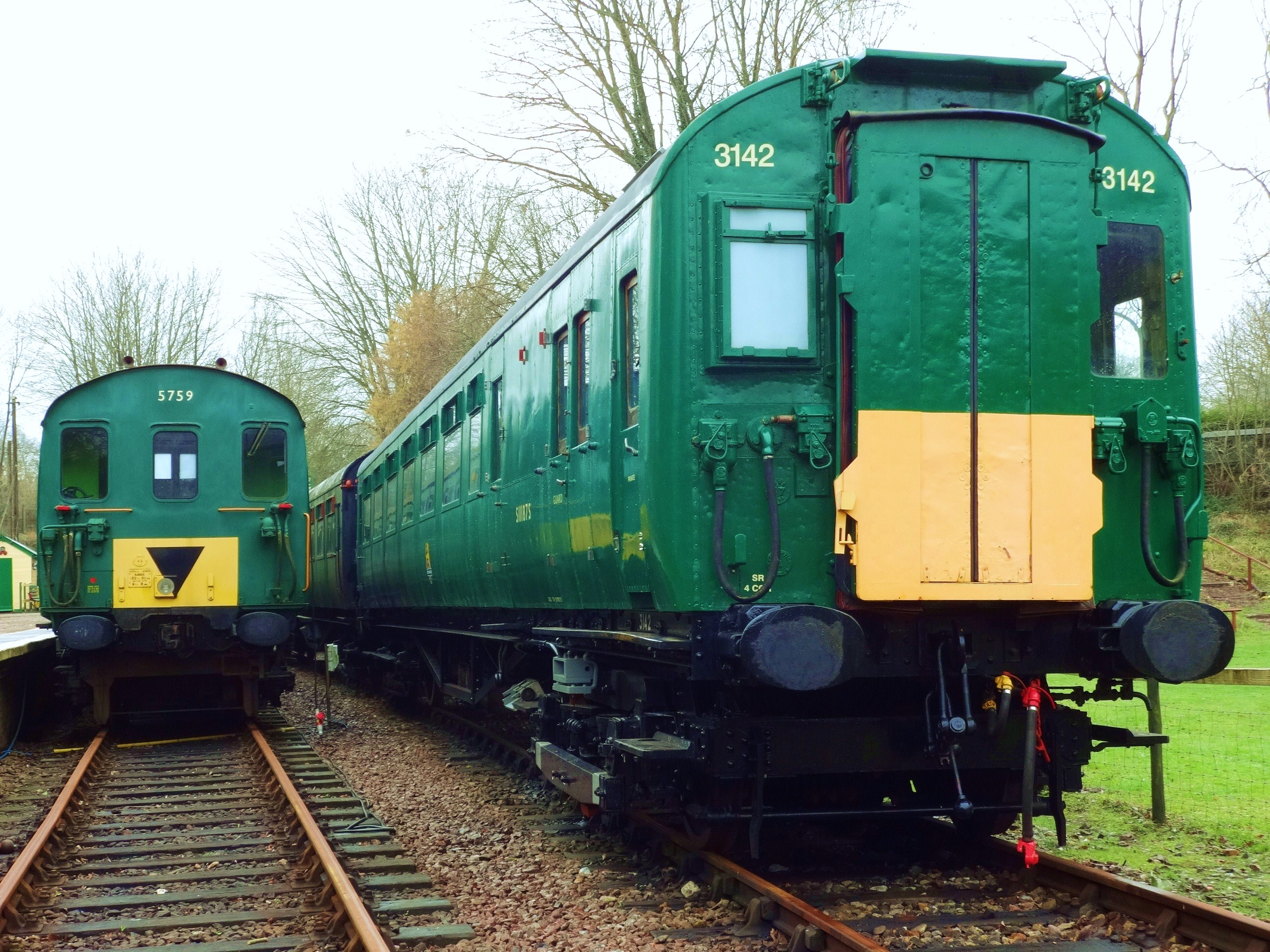 3142 is now undergoing further restoration and operating now at the East Kent Railway. Preserved Class 416 2EPB 5759 sits alongside